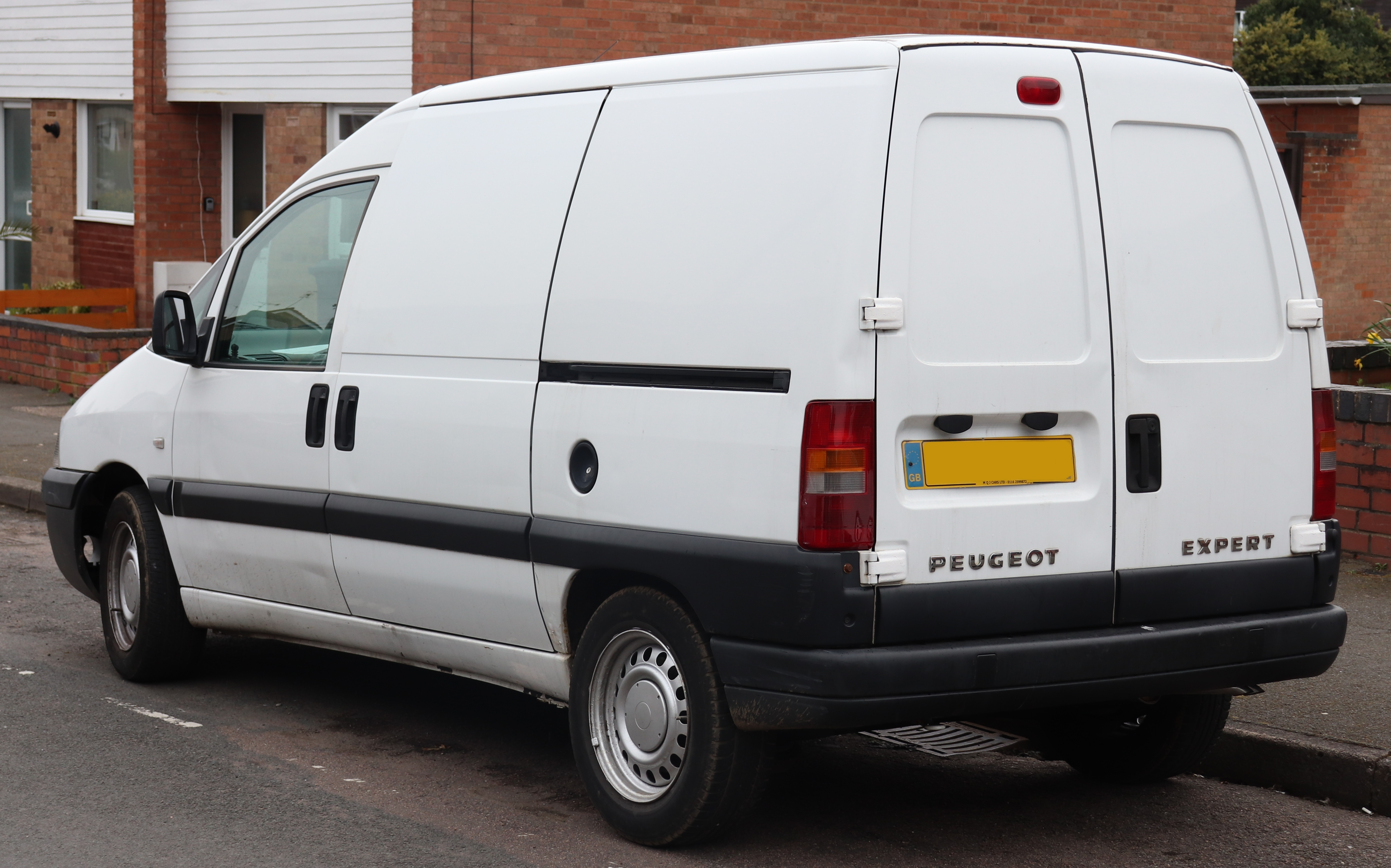 2005 Peugeot Expert 900 HDi facelift 2.0 Rear Taken in Warwick